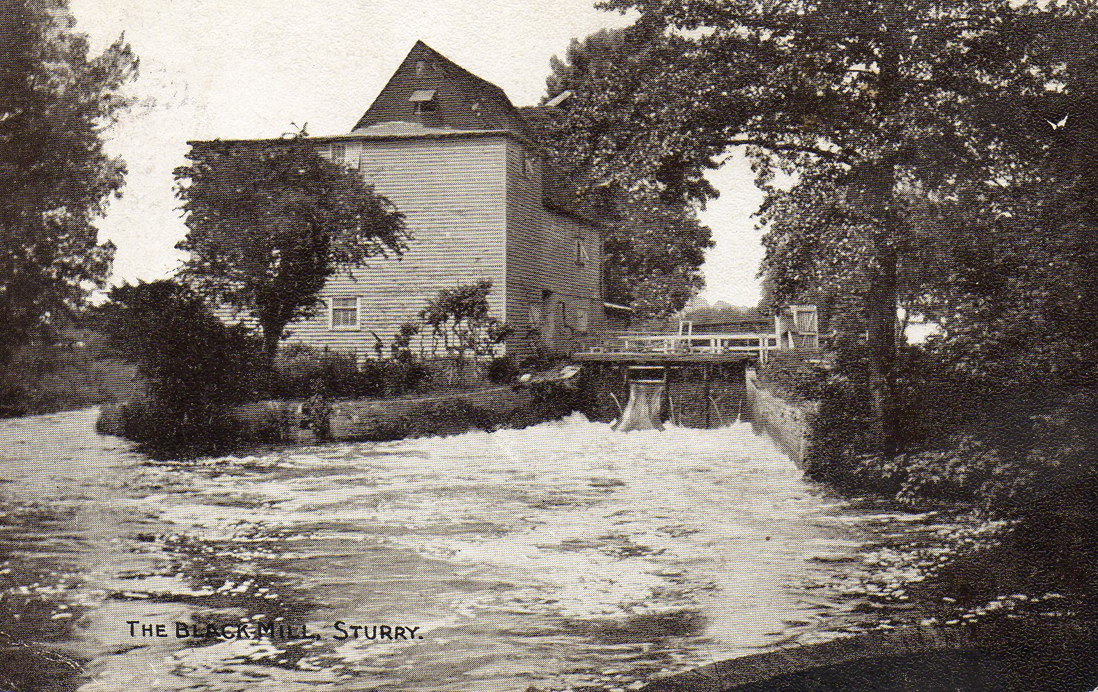 The Black Mill, Sturry. Publisher identified by "Dainty" series. Postcard datestamped 3 August 1920